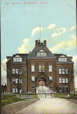 Postcard: High School, Bridgeport, Connecticut, about 1910Description: Caption:rrtrwet "High School, Bridgeport, Conn." Store Web page: "postally unused but writing on back" Store Web page title: "Bridgeport, CT High School @ 1910"